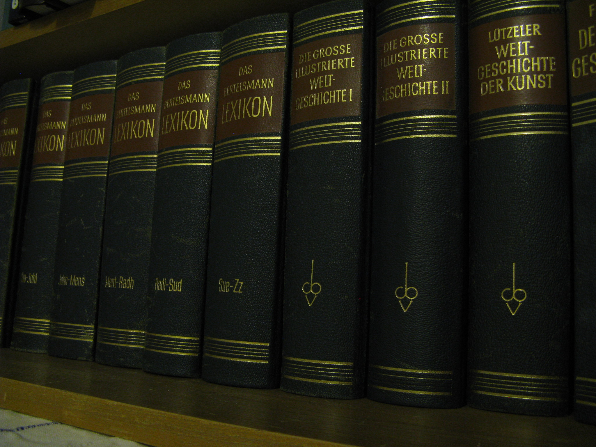 Bertelsmann-Lexikon 1967